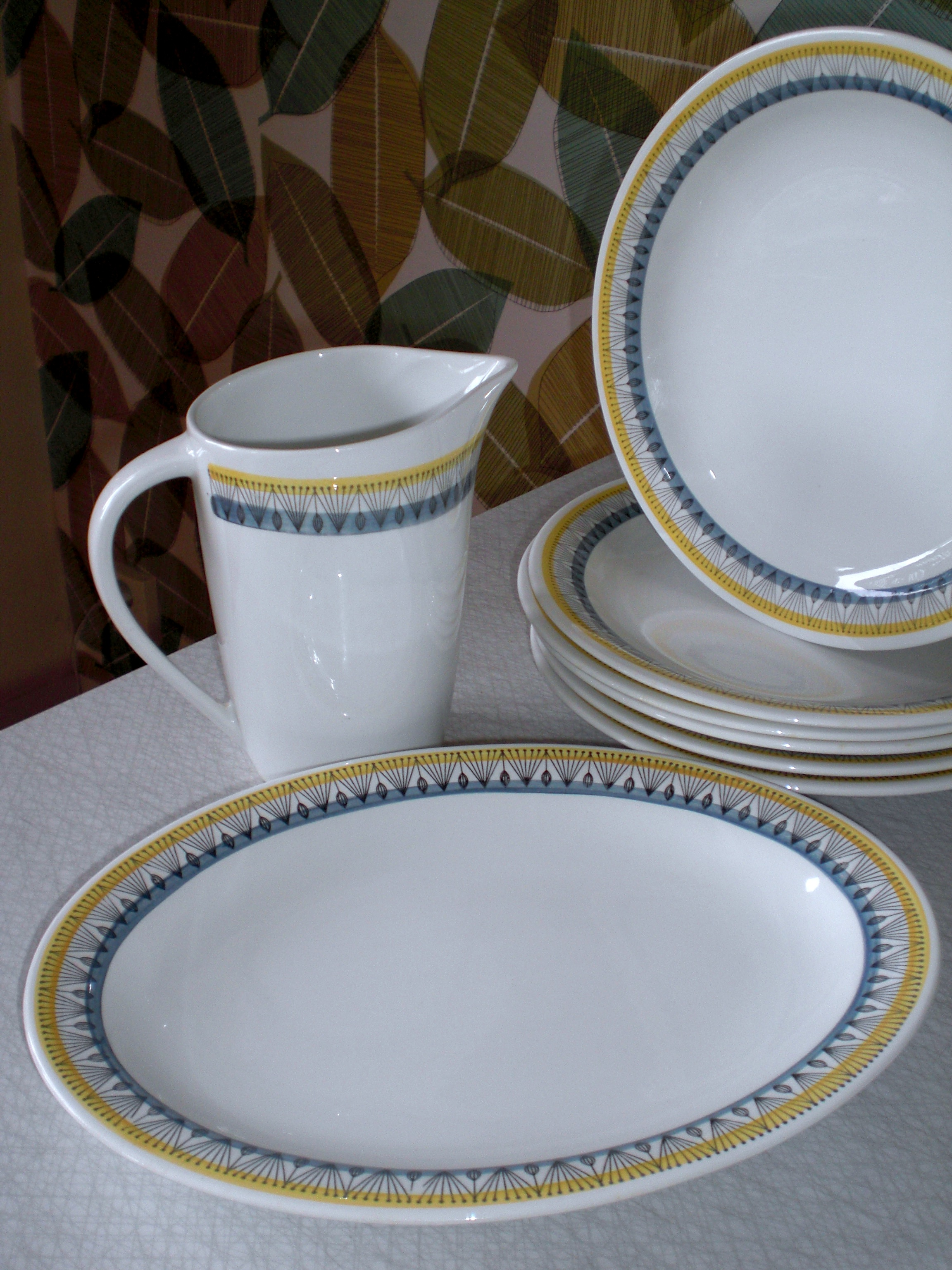 Swedisch tableware Aslög manufactured by Rörstrand.